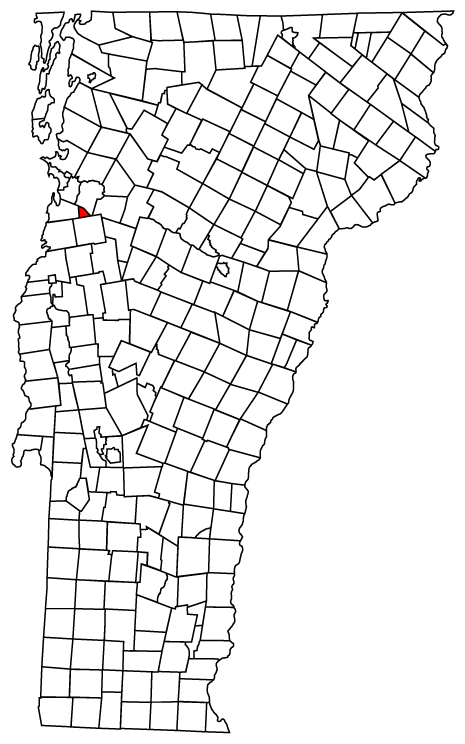 Description: Map of Vermont towns with Saint George highlighted Source: Map created by Jared C. Benedict on 26 March 2004. Copyright: © Jared C. Benedict.